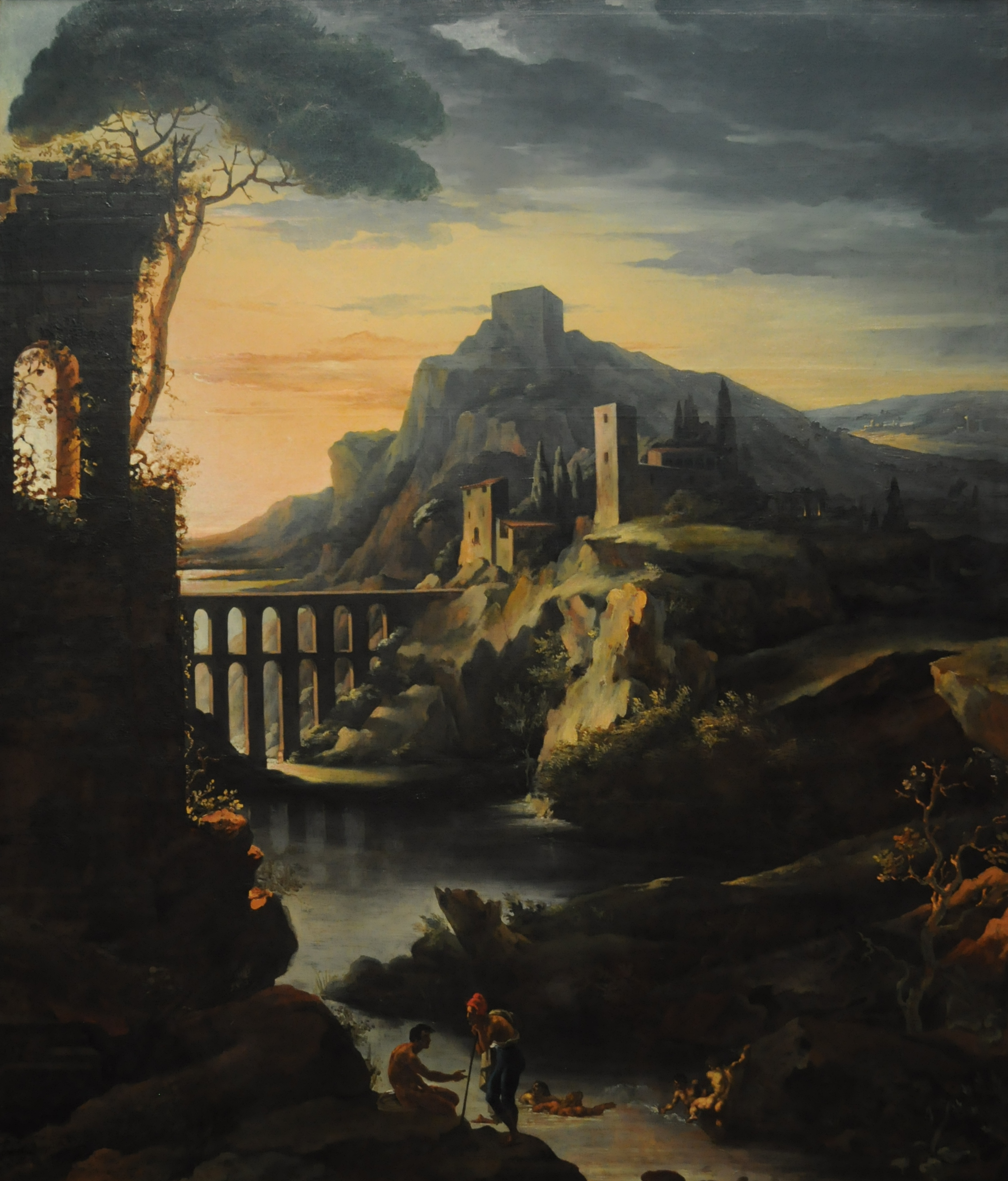 One of a project set of four landscapes depicting times of the day, of which only three were completed. For more information